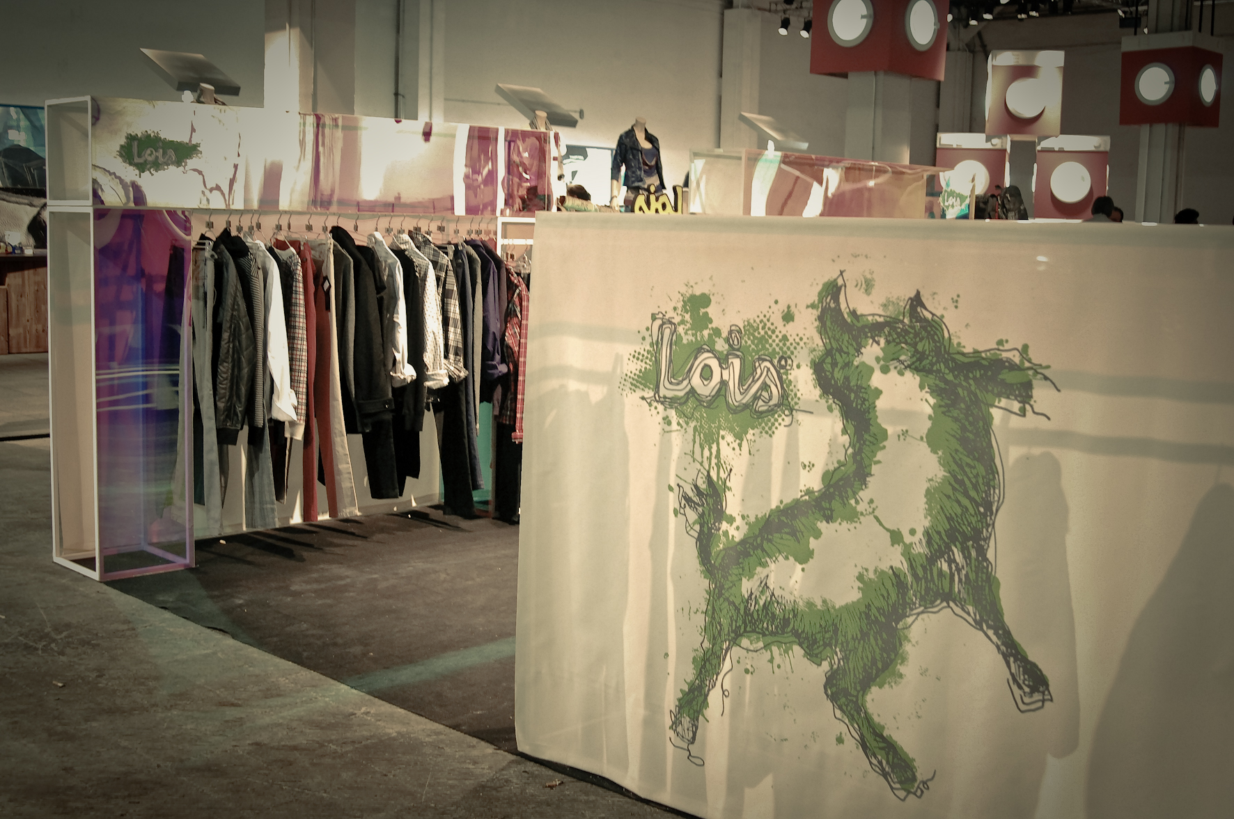 Lois brand at The Brandery Winter Edition 2010